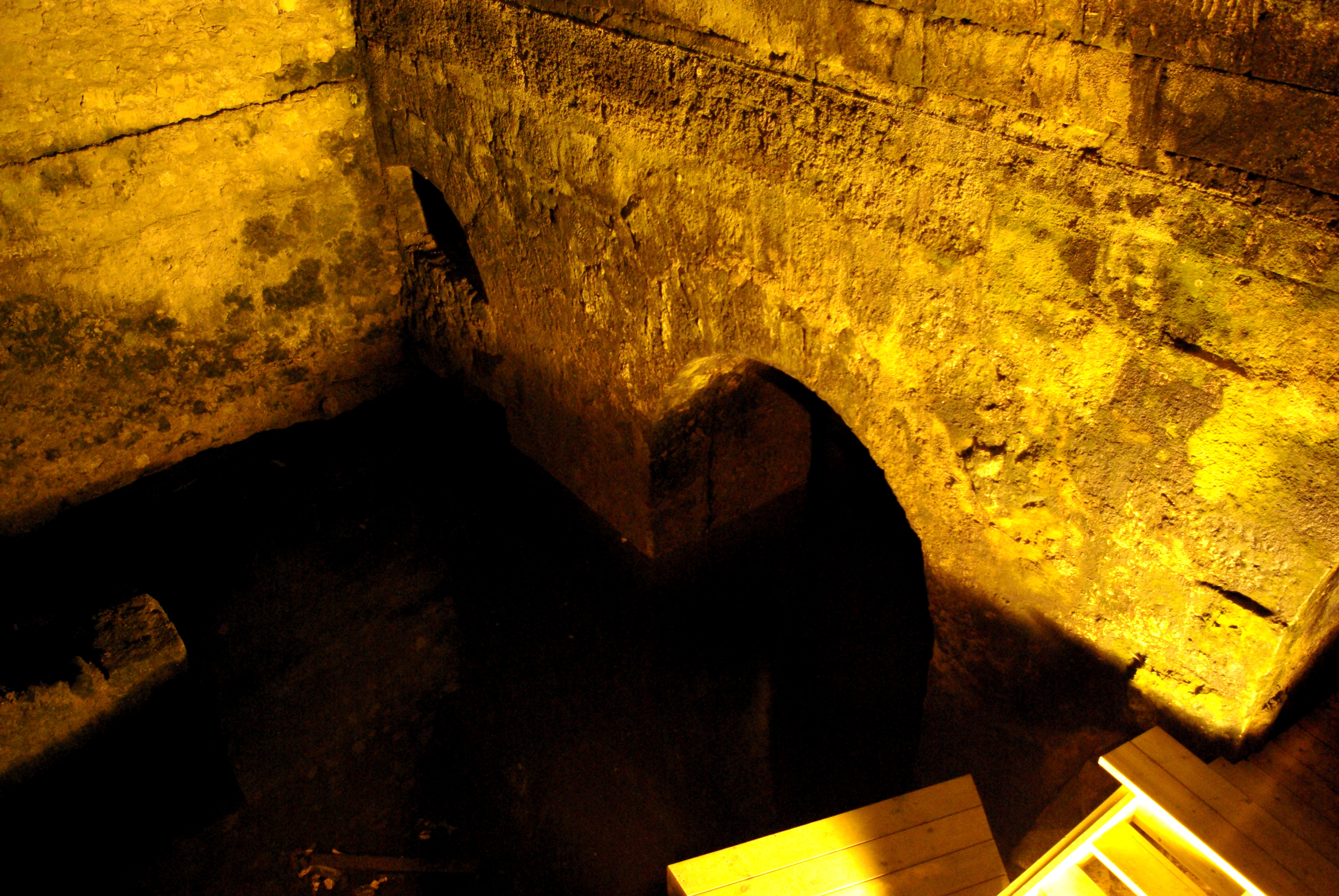 Jerusalem, Western wall tunnel, Ancient cistern